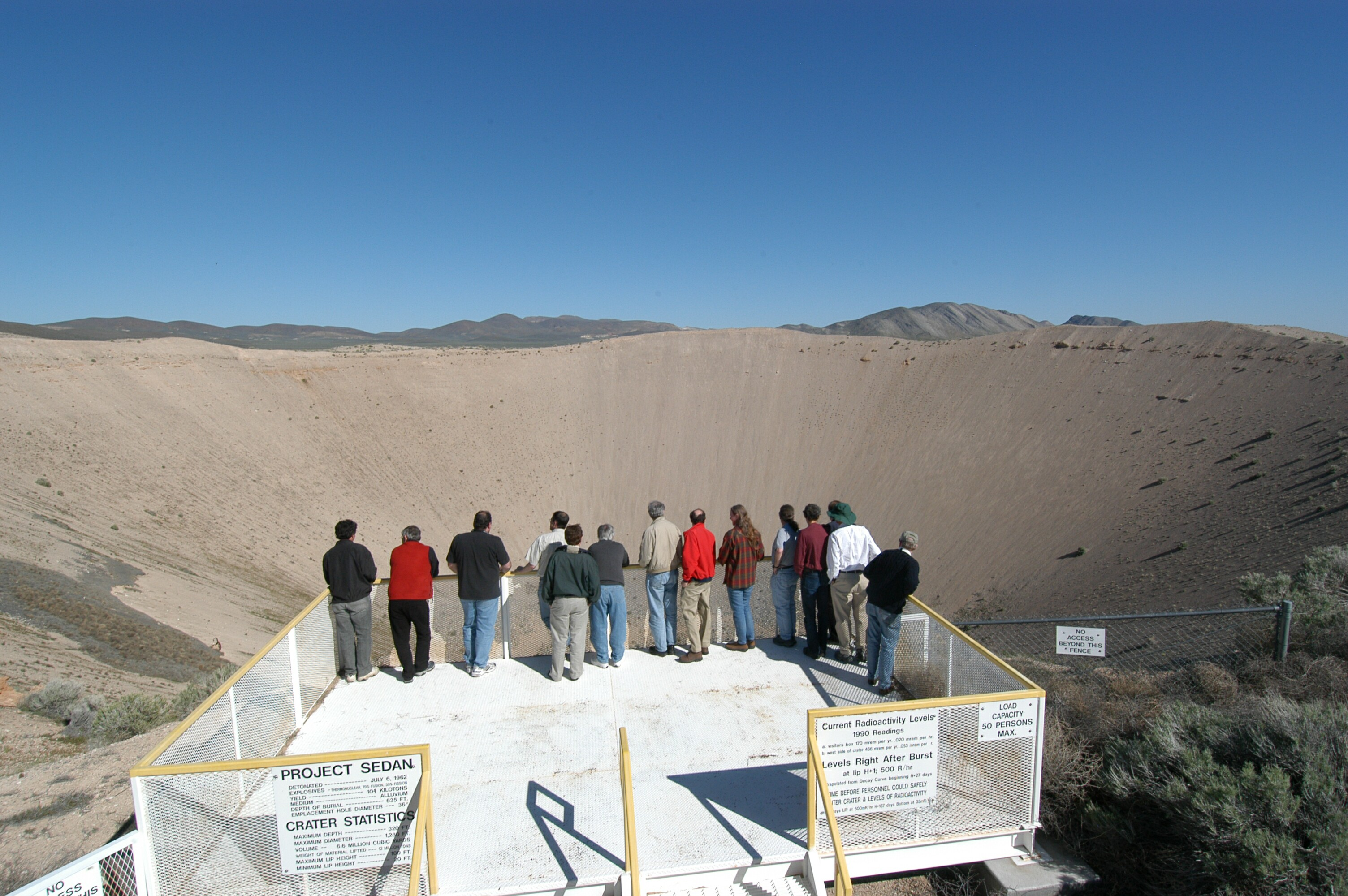 Observation deck at Sedan Crater, Nevada Test Site